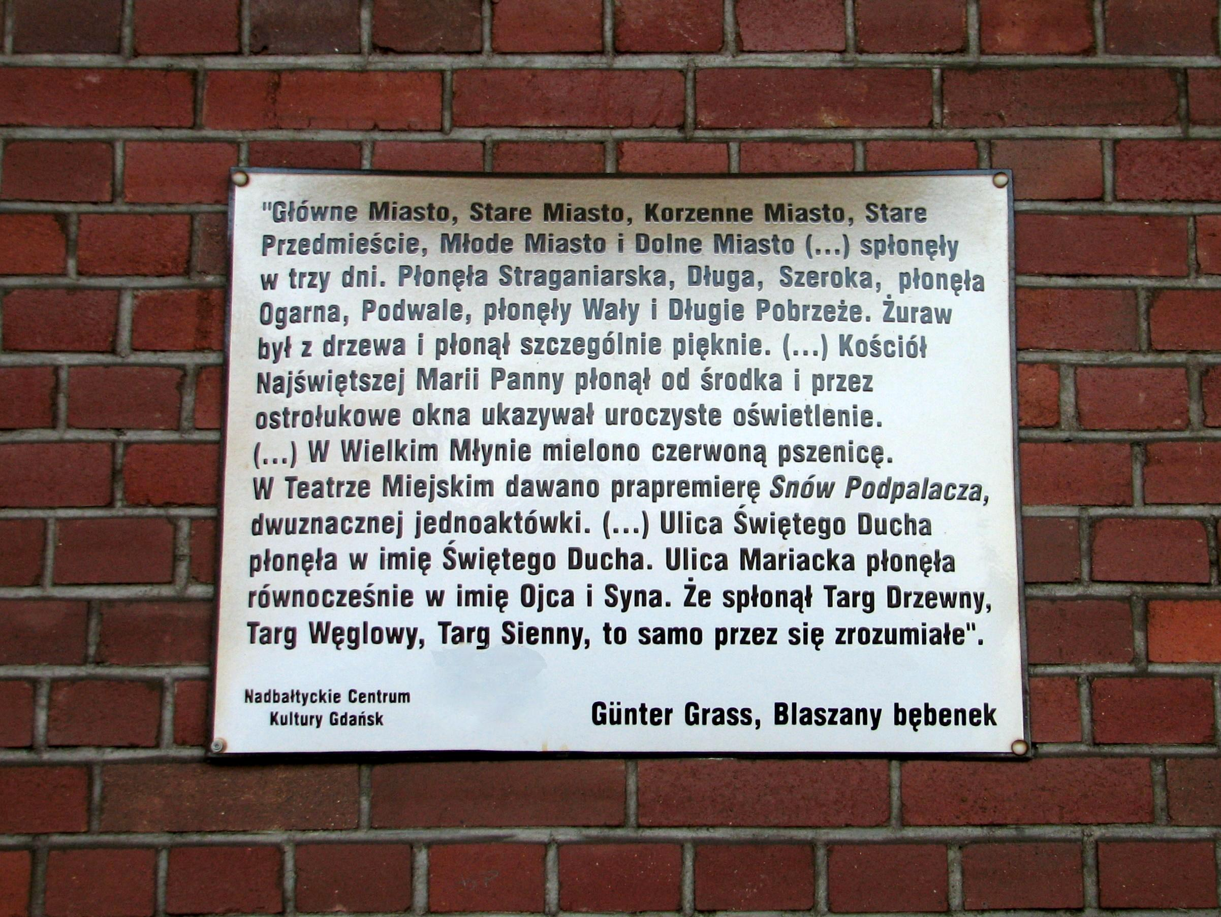 Quotation from "The Tin Drum" at Gdańsk Główny train station.